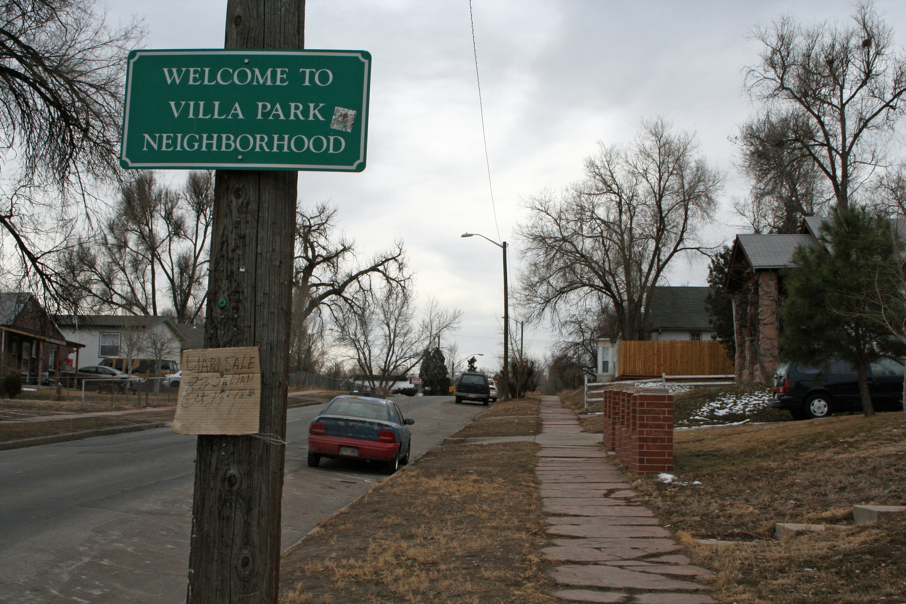 The Villa Park Neighborhood of Denver, Colorado.